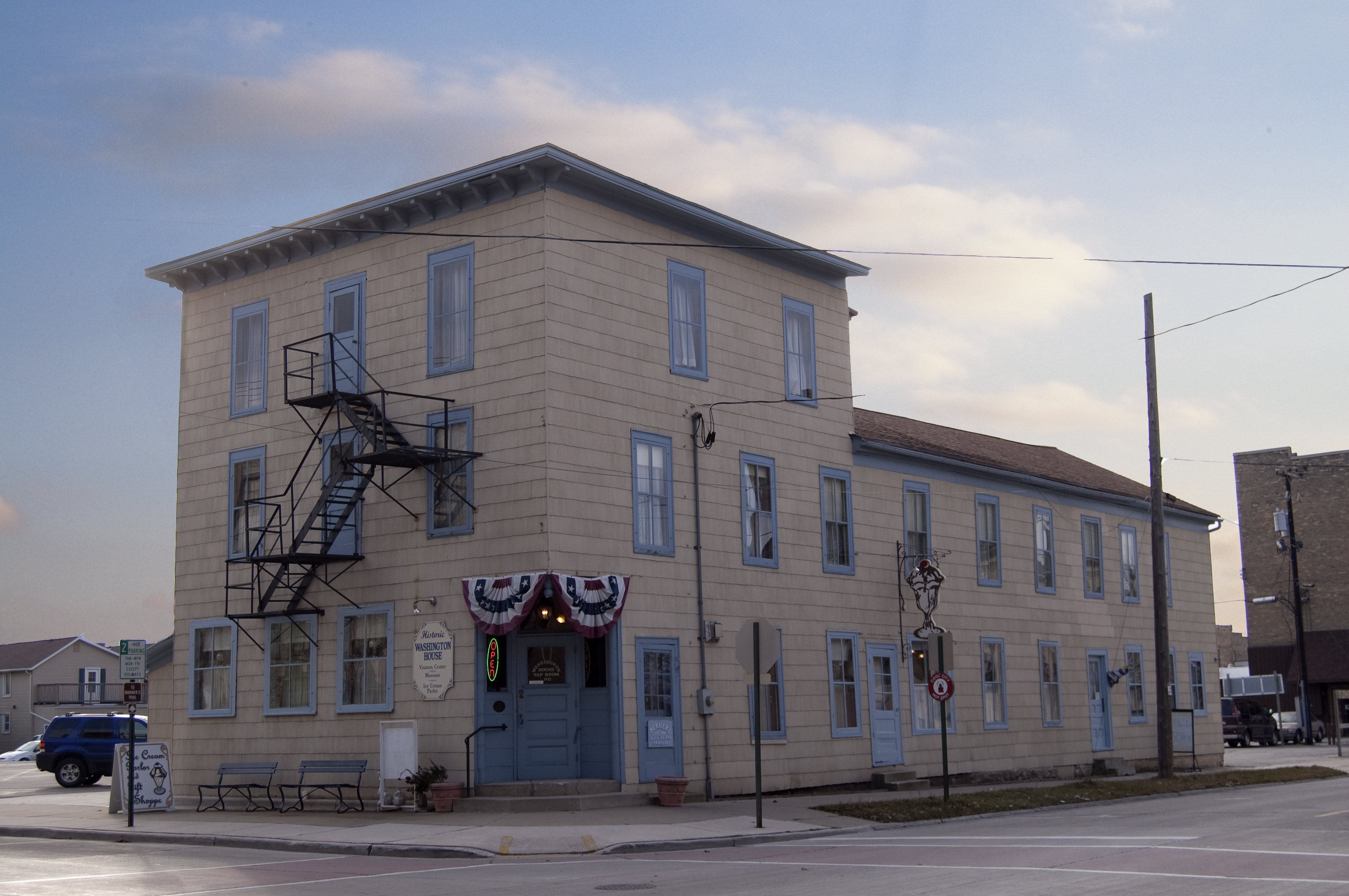 Washington House in Two Rivers, Wisconsin